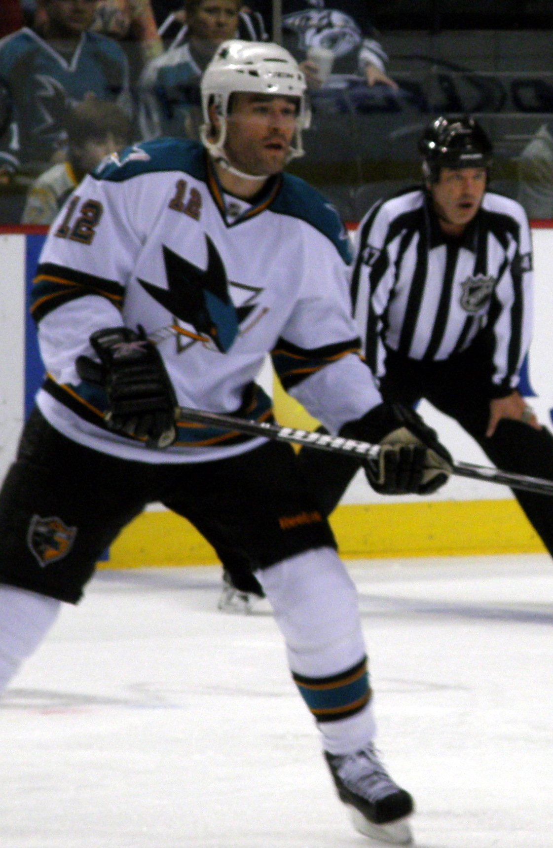 San Jose Sharks at Nashville Predators, February 6, 2010